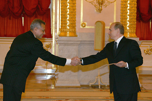 ST ALEXANDER HALL, THE GRAND KREMLIN PALACE. The letter of credential is presented by the Ambassador of the Republic of Paraguay, Marcial Bobadilla Guillen.